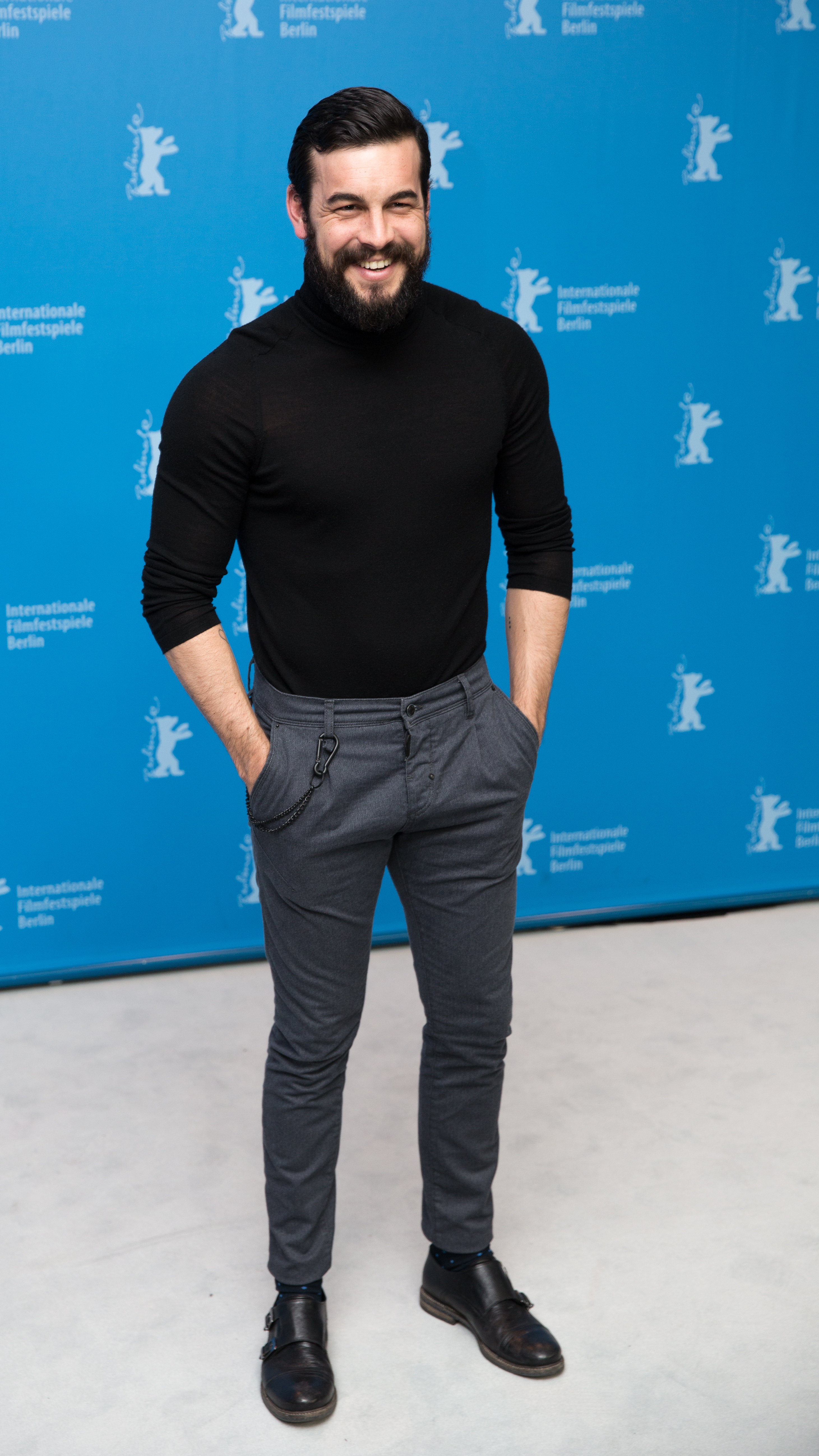 The actor Mario Casas presenting the movie The Bar at the Berlinale 2017